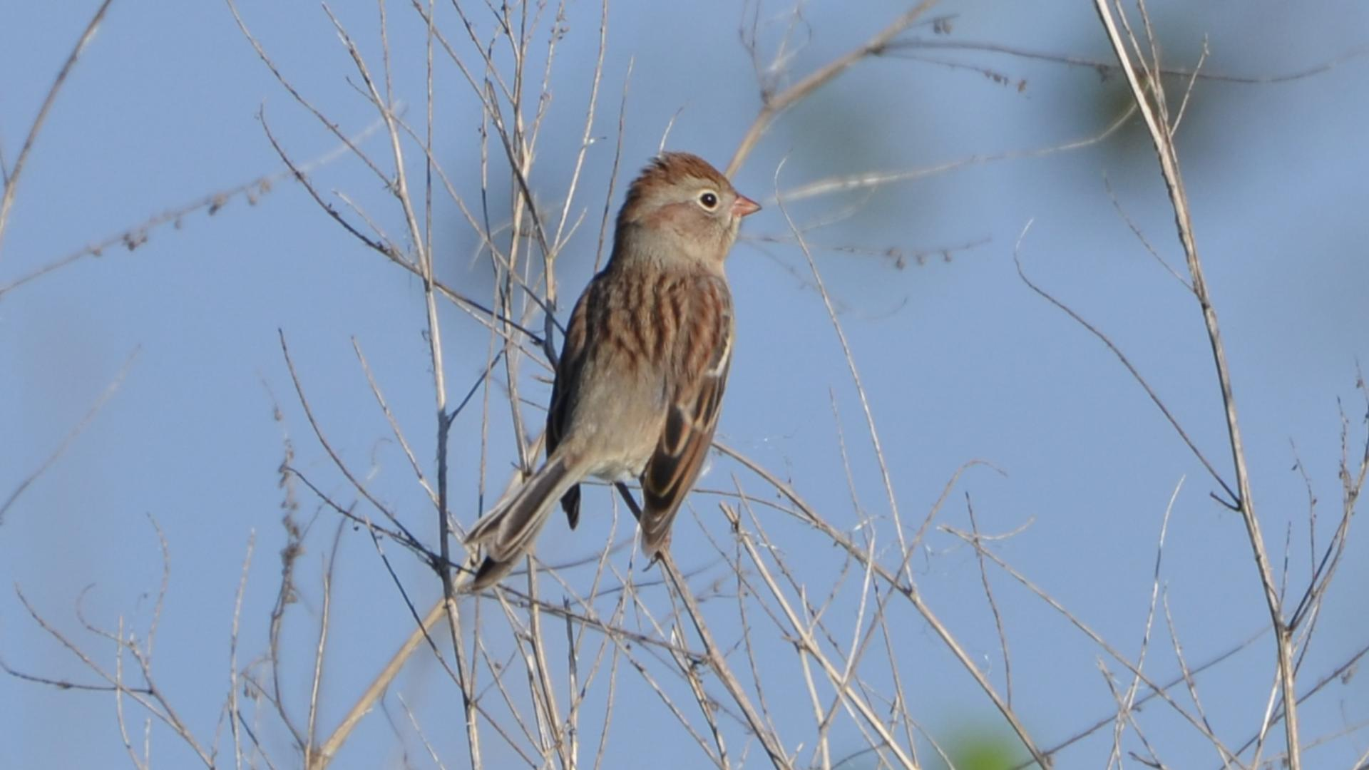 Riverland Migratory Bird Sanctuary in Alton Missouri on 10/20/12